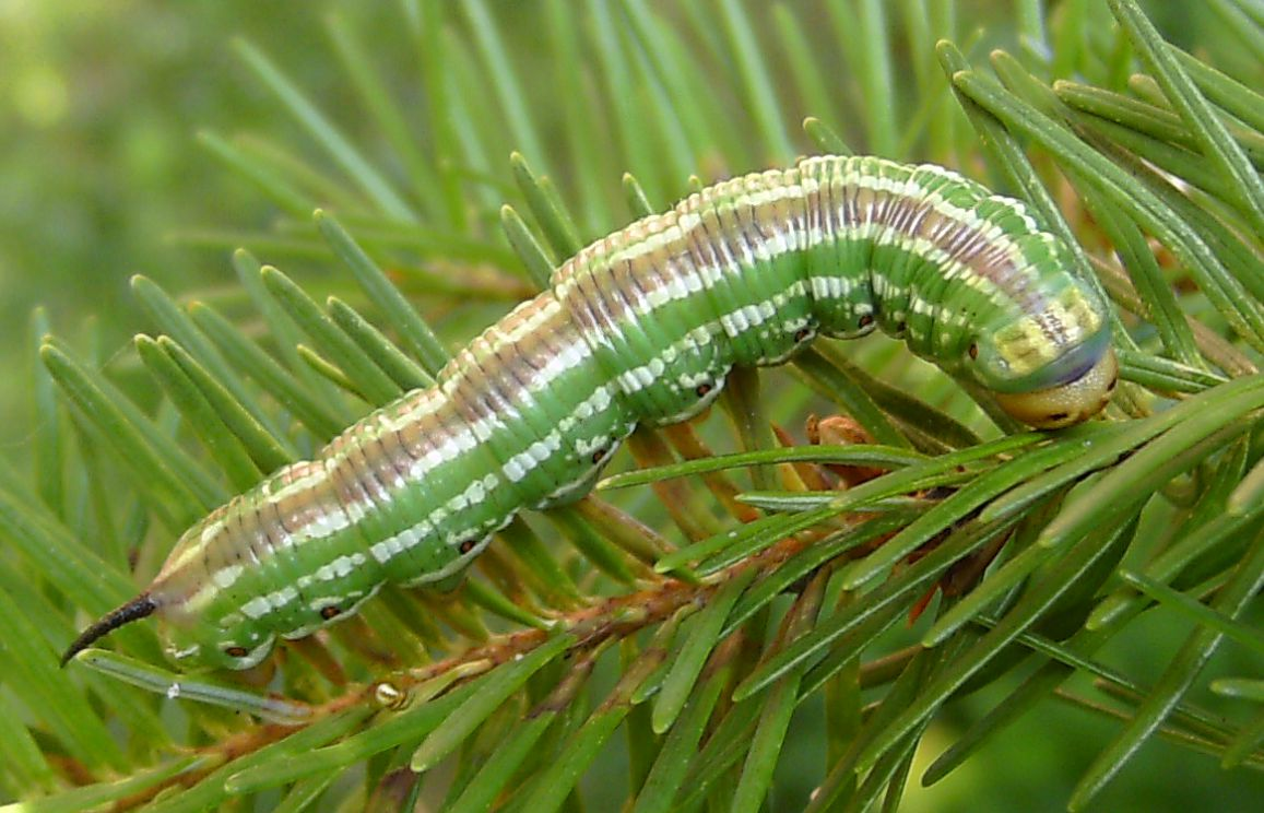 Sphinx pinastri, Caterpillar, 29.08.2019, Frankfurt am Main